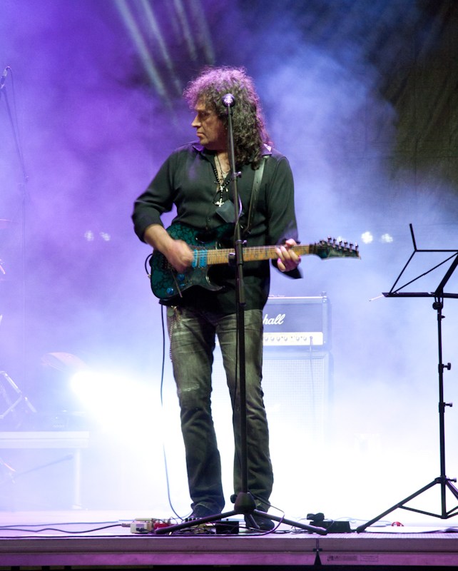 The Bulgarian rock guitarist Nikolo Kotsev performing with his band Kikimora and Doogie White on the town square in Sopot, Bulgaria.